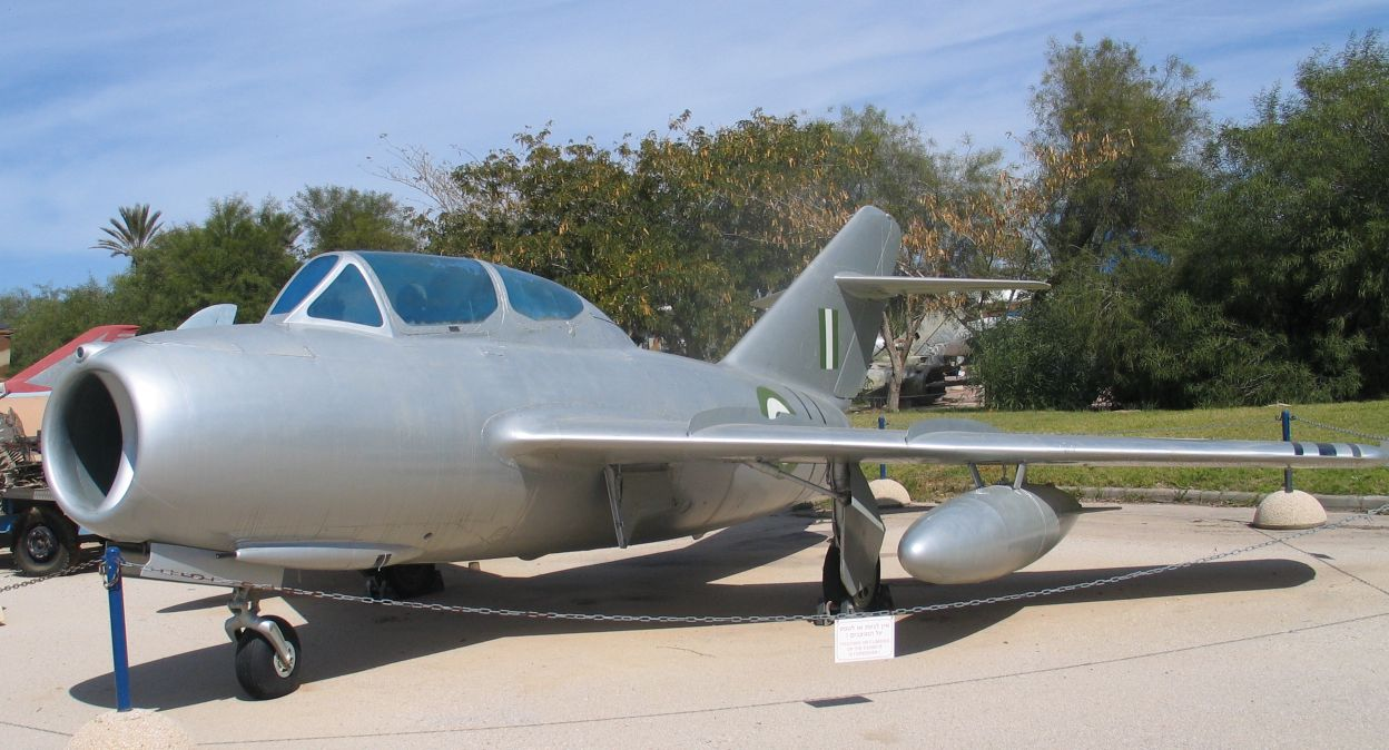 Description: MIG-15UTI at Muzeyon Heyl ha-Avir, Hatzerim airbase, Israel. 2006. Source: Photo by me, User:Bukvoed.